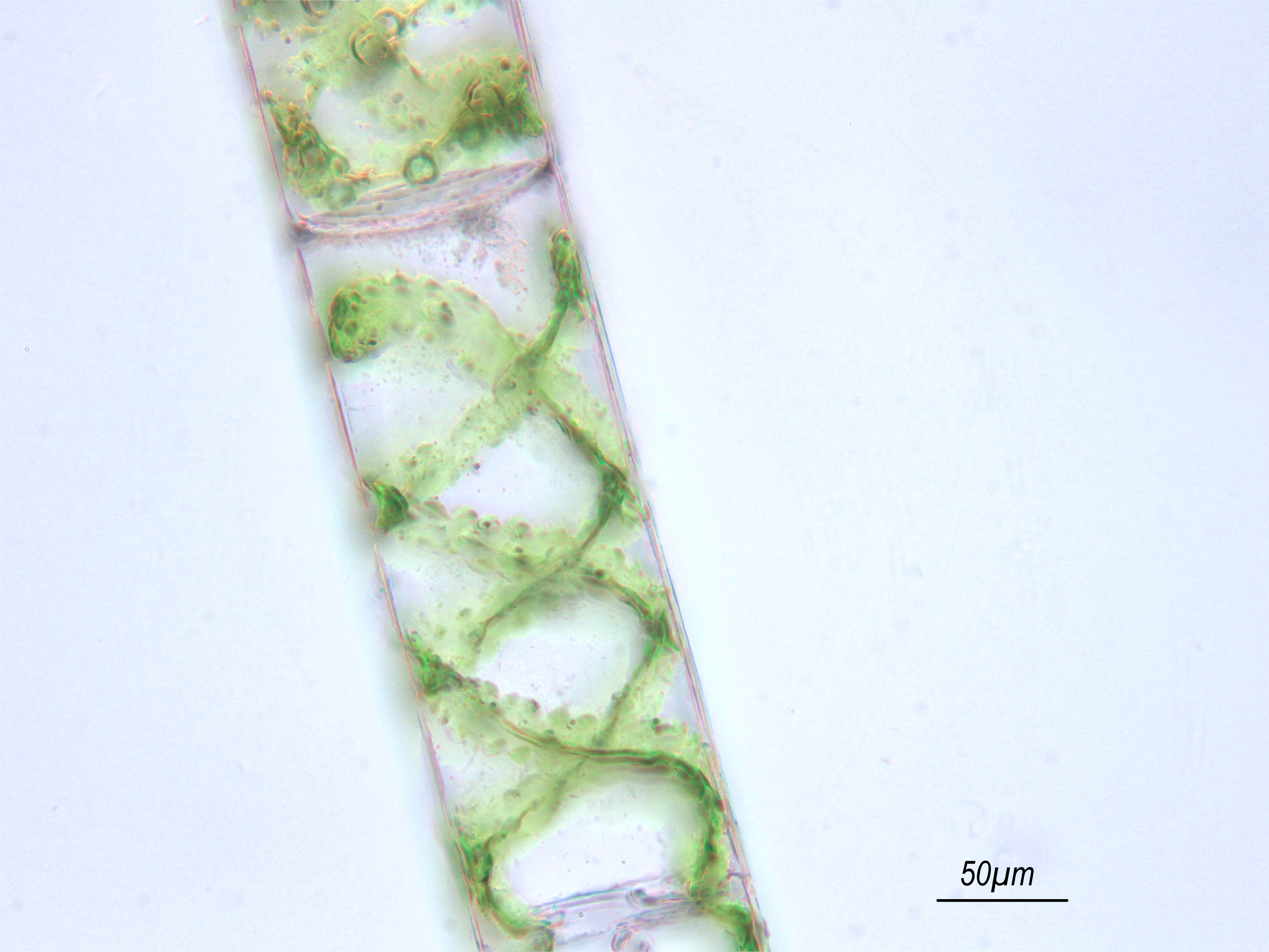 Spirogyra, photo in microscope